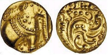 ಕನ್ನಡ: ಗಜಪತಿ ಪಗೋಡ 10th - 11th ಶತಮಾನ, ಪಶ್ಚಿಮ ಗಂಗವಂಶ. Gajapati Pagoda, 10th-11th century, Hoysala Dynasty or Western Ganga Dynasty